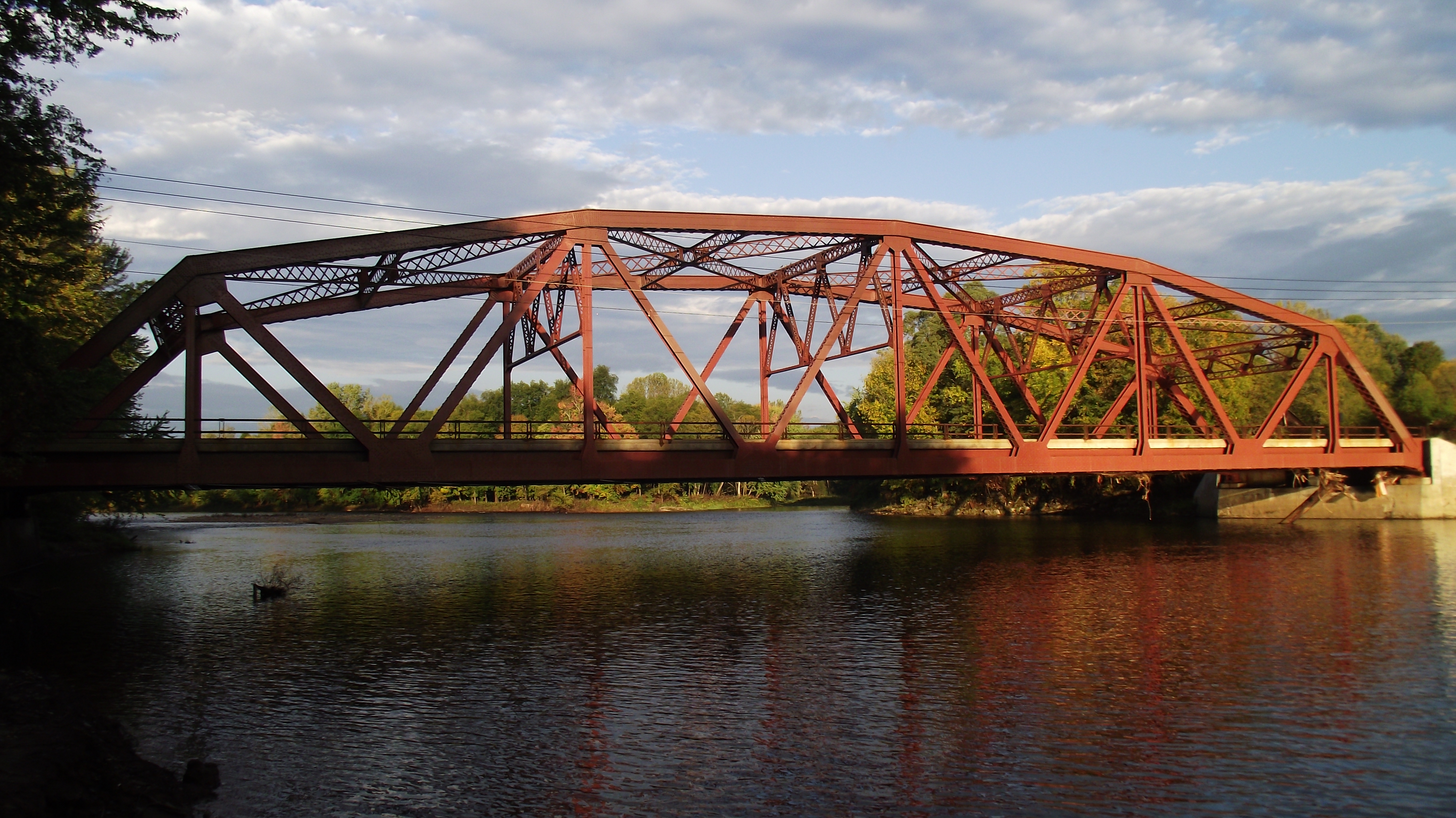 Steel truss bridge carries US 9 over AuSable River in AuSable, NY